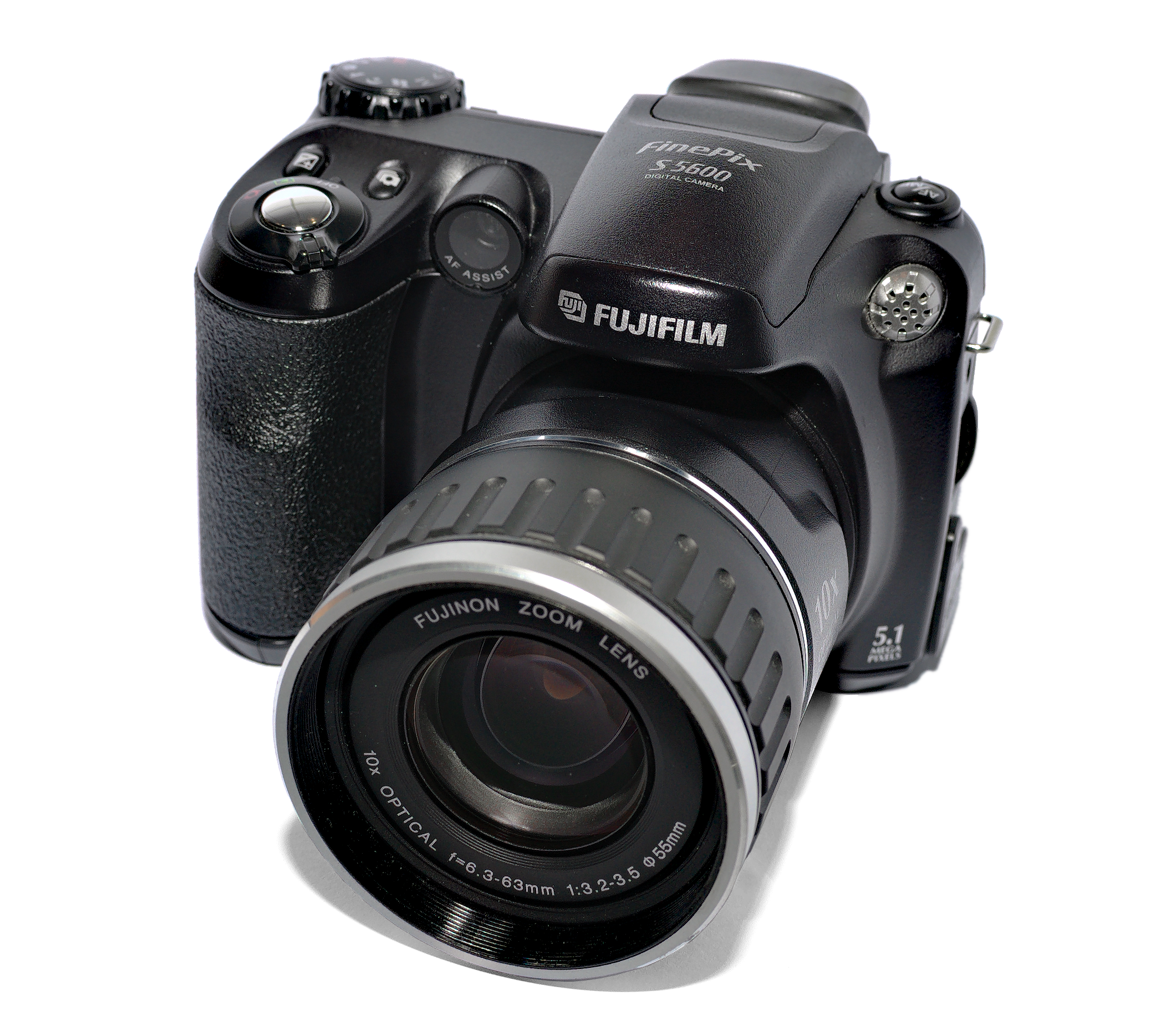 The Fujifilm FinePix S5600 (S5200 in North America) is a bridge camera released in 2005. It comes with a 1/2.5" sensor of proprietary design called SuperCCD, the fifth generation of which allows for somewhat better dynamic range and low-light performance than some contemporary Point&Shoot competitors. Nominal resolution is 5.1 MP, but it is possible to obtain 10.2 MP images by enabling RAW due to the way this type of SuperCCD works. While image quality isn't equal to a true 10 MP camera, more detail than out-of-camera JPEG can be recovered in post-processing. There is also a video mode recording in 640x480@30 FPS with mono sound from the internal microphone.Optics are a 38-380mm (35mm equivalent) superzoom lens with F3.2-3.5, whereas data storage relies on xD-Picture card exclusively. There is no built-in memory. Connectivity encompasses Mini-B USB 2.0 and analog video/audio output via a Mini-AV 2.5mm jack. Power is provided by four AA batteries or an external 5V adapter.